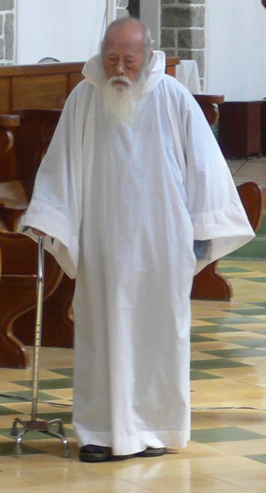 Father Nicholas Kao, once the oldest Catholic Priest in the world. He dies on 11th Dec 2007. This photo was taken a month before he passed away.